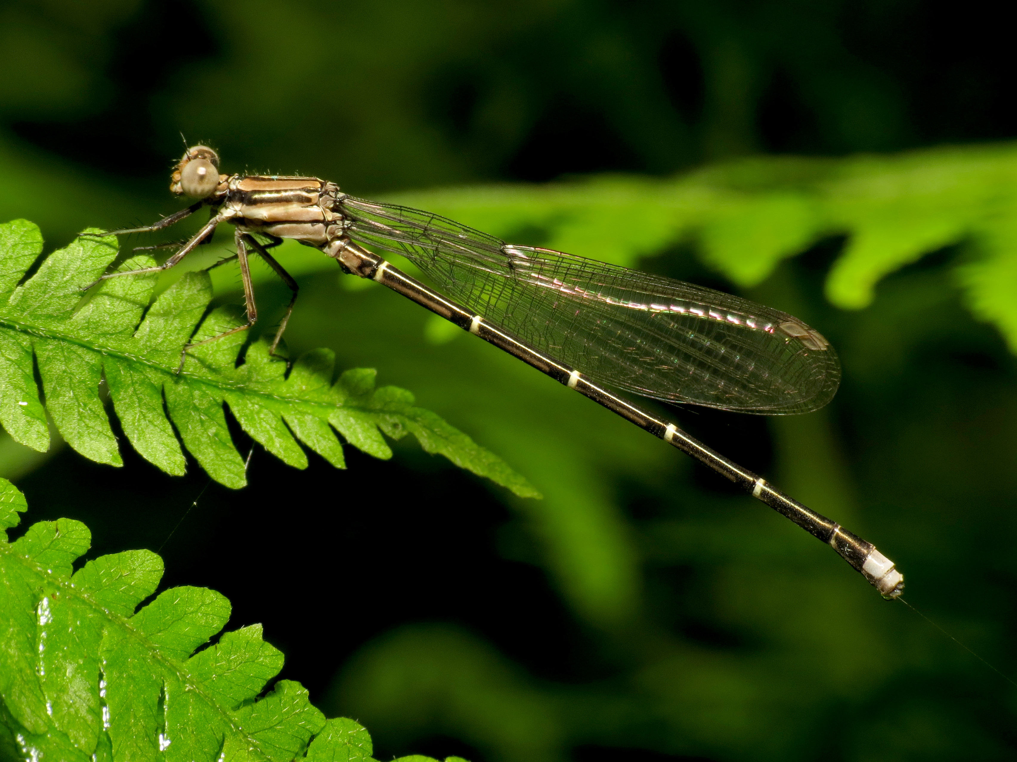 Argia tibialis. Rock Creek Park, Washington, DC, USA.